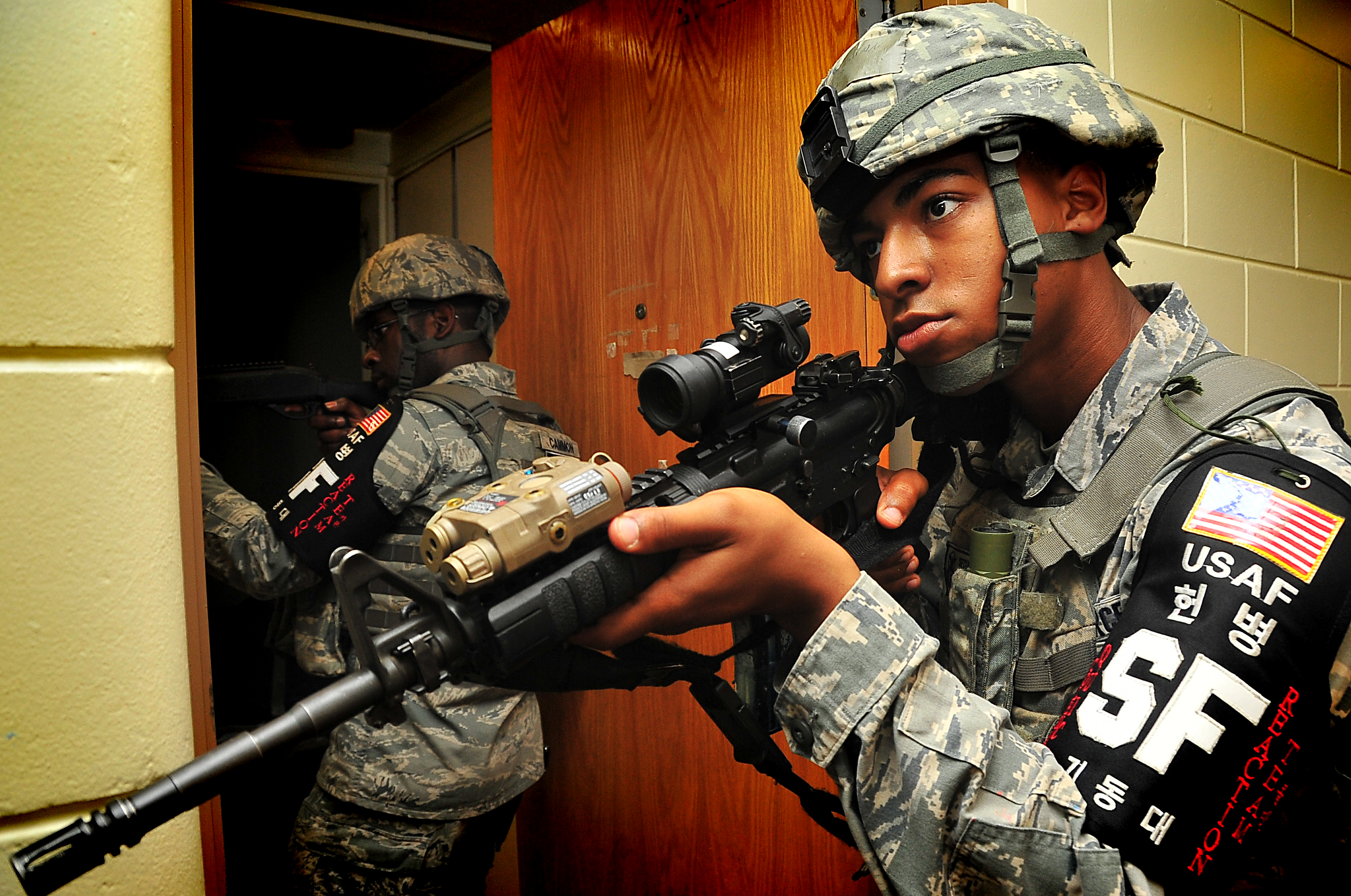 OSAN AIR BASE, Republic of Korea -- Airman 1st Class Jose Campos, 51st Security Forces Squadron, clears an empty room June 20 at Osan Air Base, Republic of Korea. Security Forces is responsible for ensuring the safety of bases, weapons, property and personnel from hostile forces.